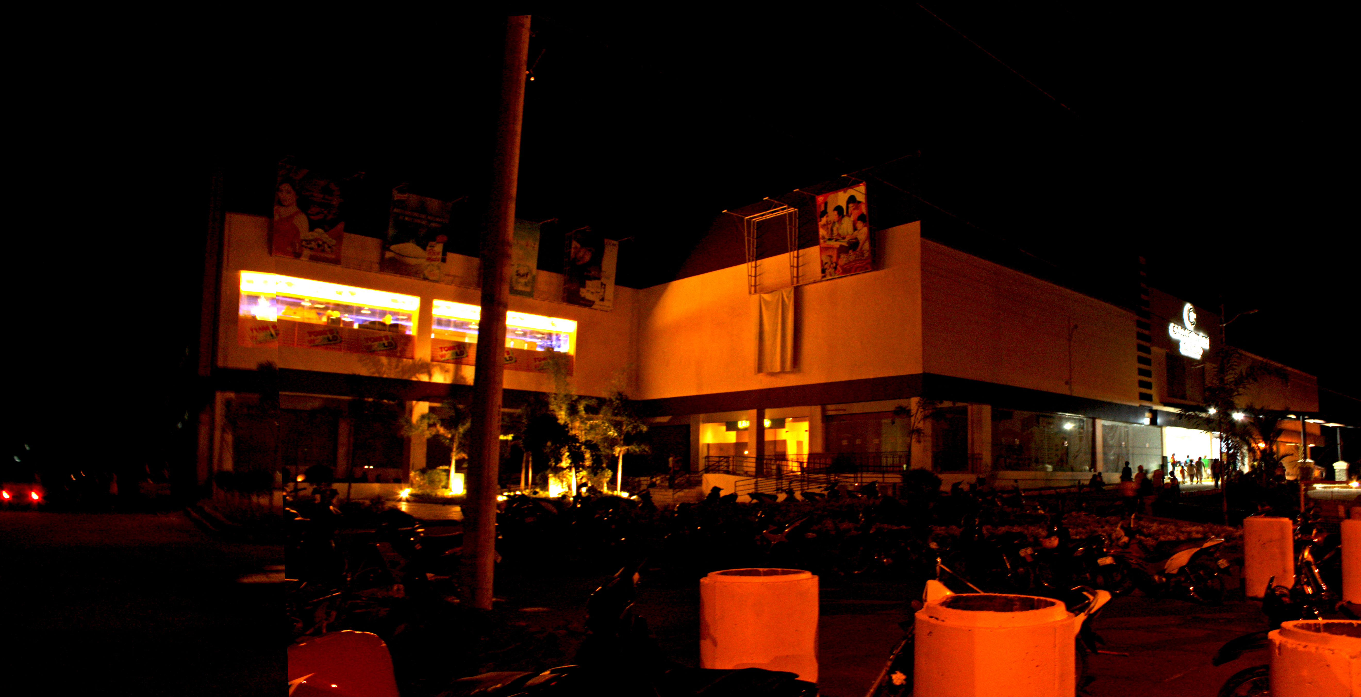 A night shot view of the biggest 3 story mall in Surigao City, Gaisano Capital Surigao. It opened last March 16 2012.